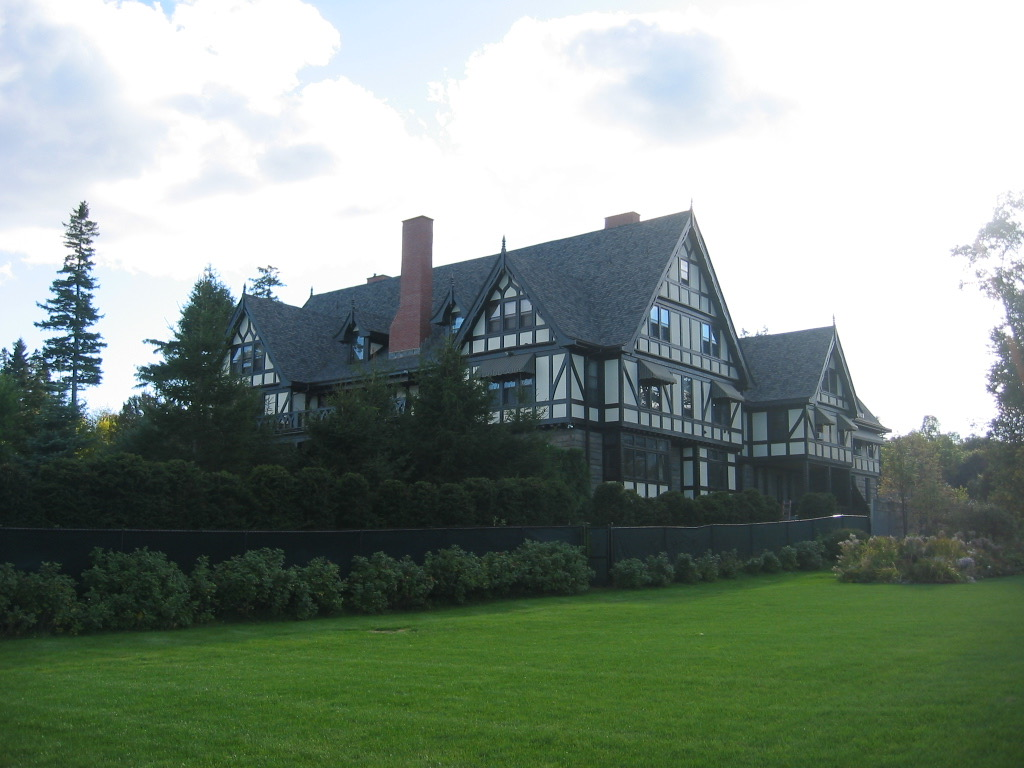 Depicted place: John Innes Kane Cottage